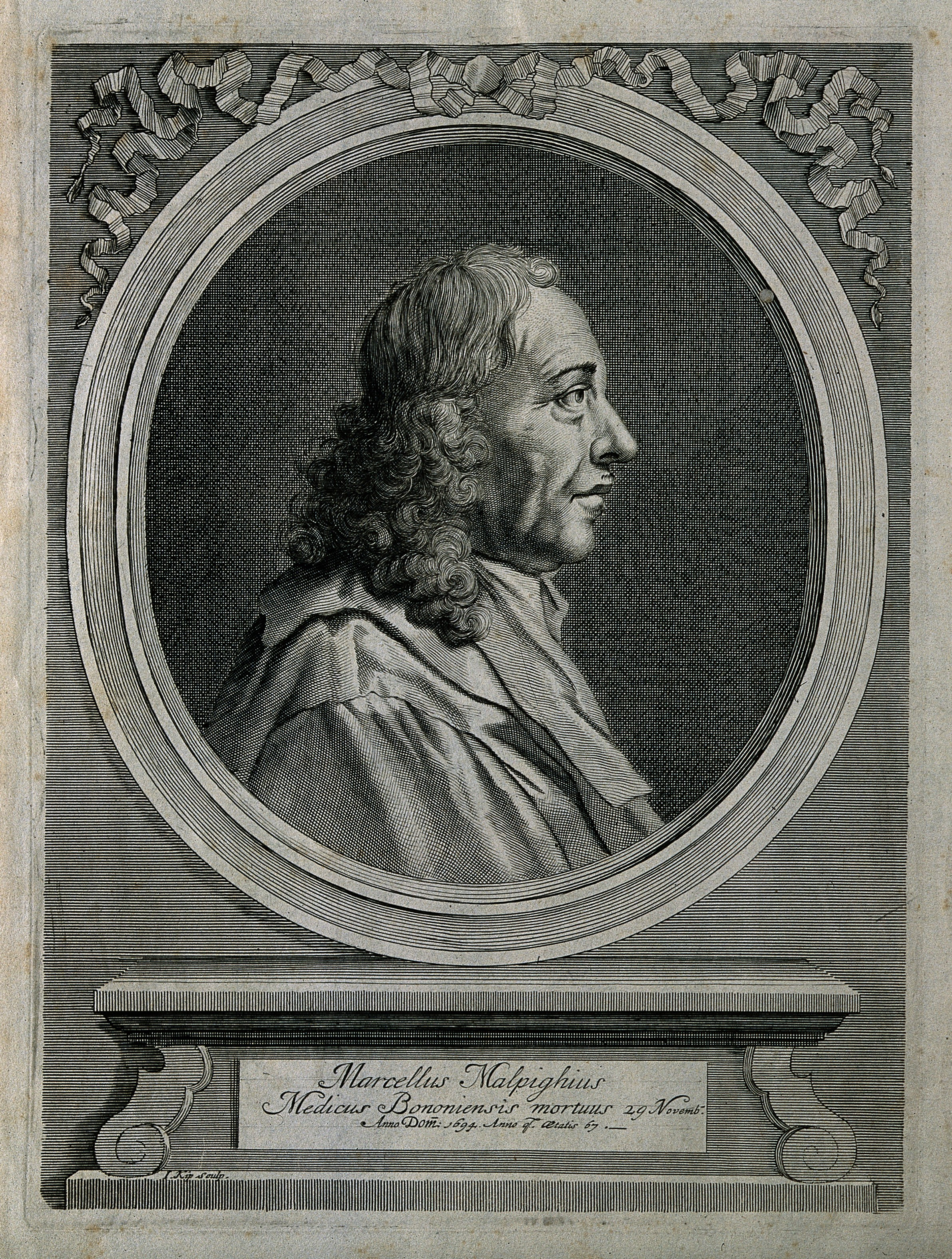 Marcello Malpighi. Line engraving by J. Kip, 1697. Iconographic Collections Keywords: portrait prints; engravings; Marcello Malpighi